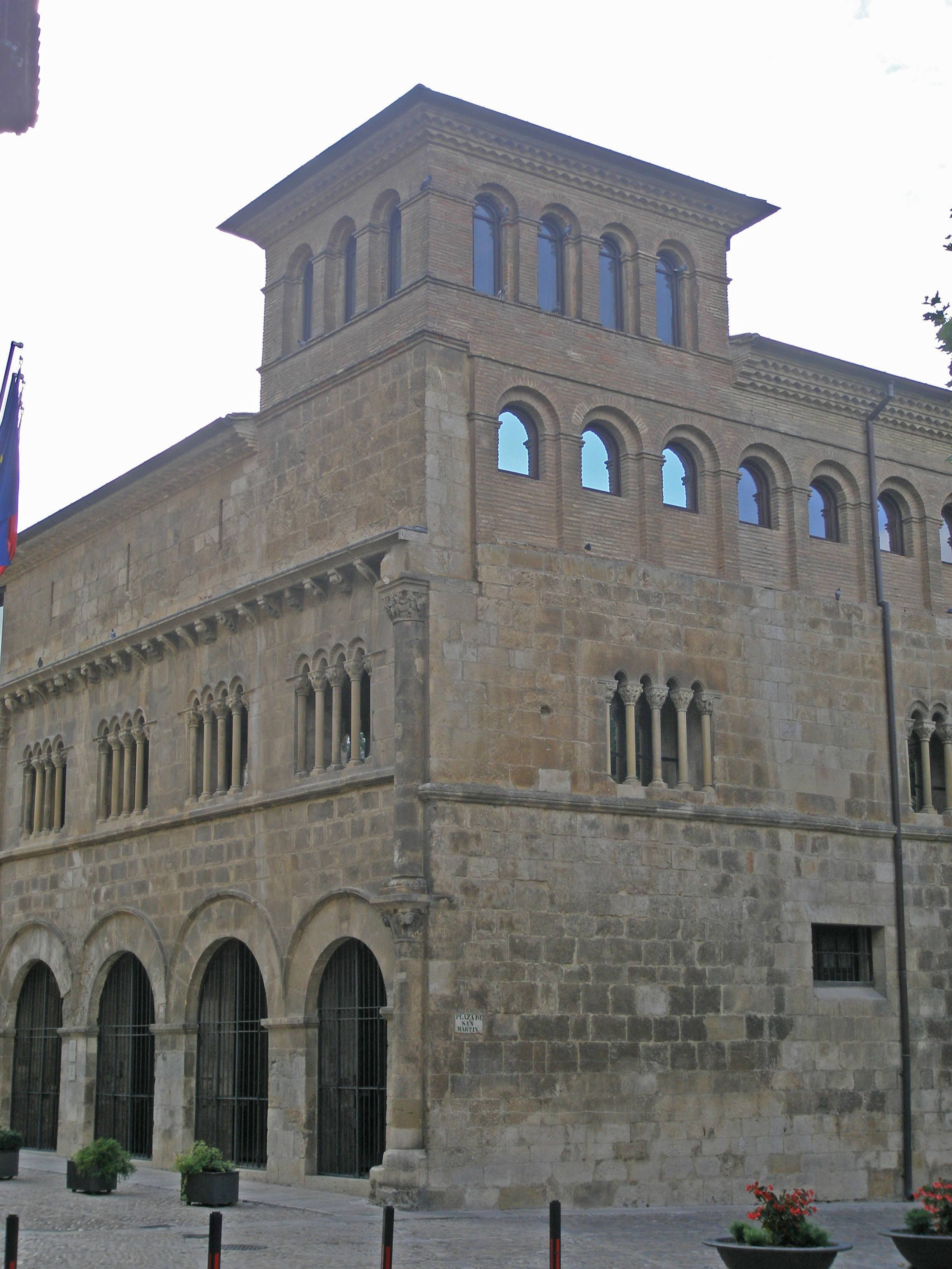 King´s of Navarra Palace. Romanic.